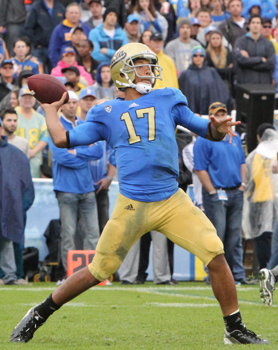 UCLA Bruins quarterback Brett Hundley